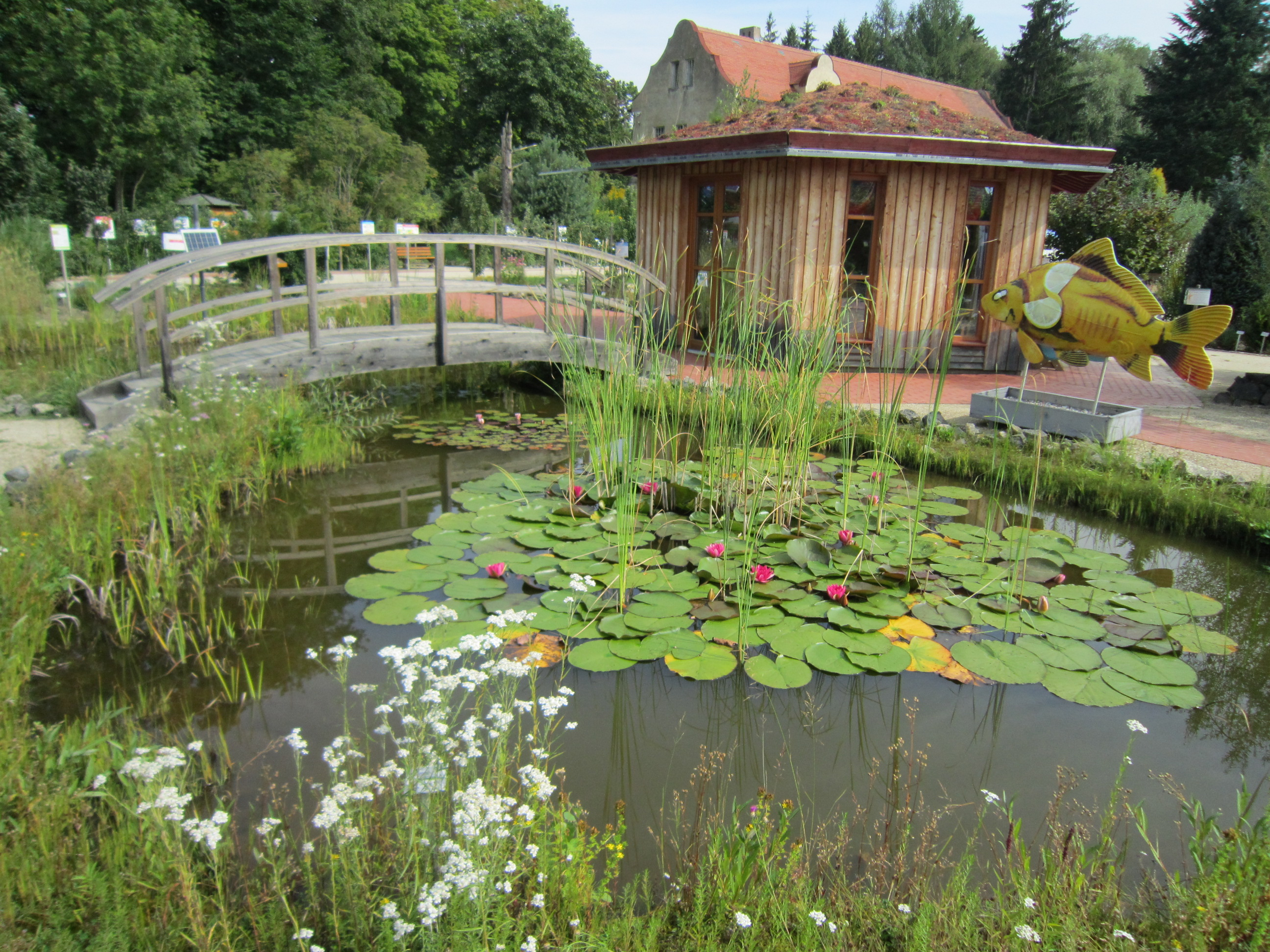 Nature experience garden in Waldsassen